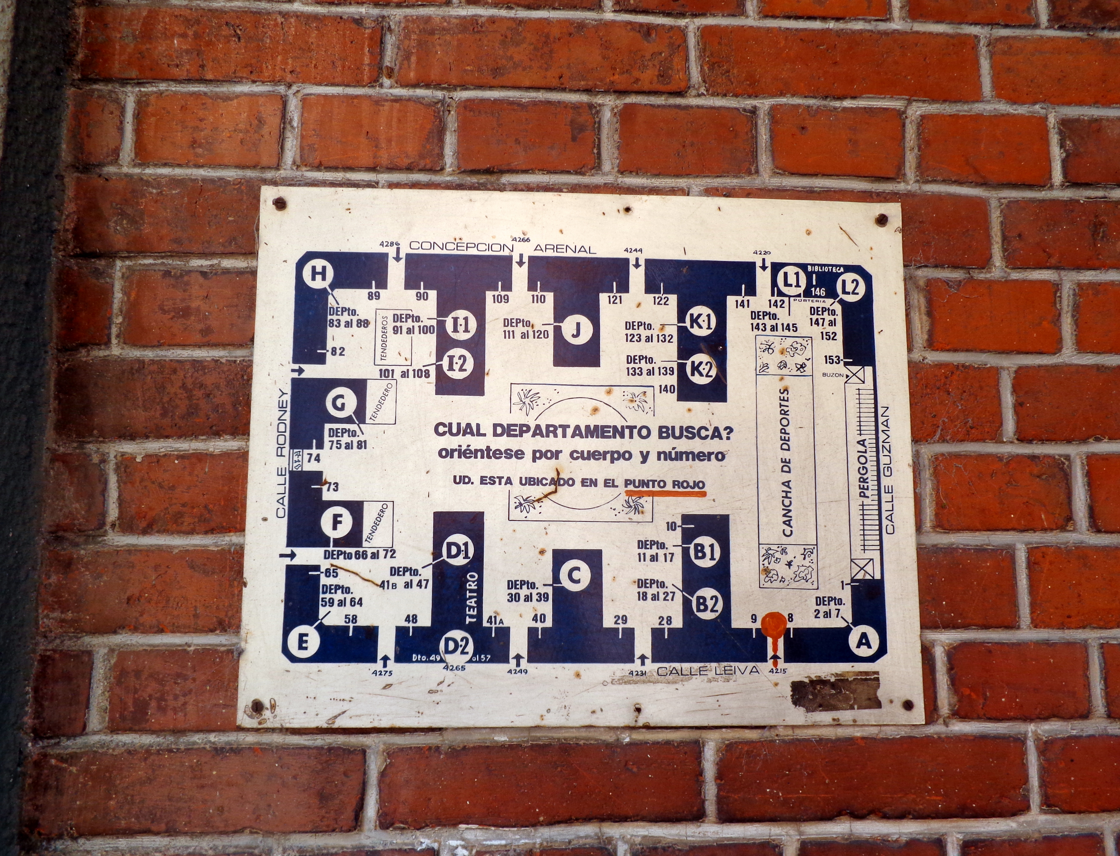 Parque Los Andes House Collective, a micro neighborhood built by the City of Buenos Aires between 1926 and 1928 in Chacarita, Buenos Aires, Argentina.